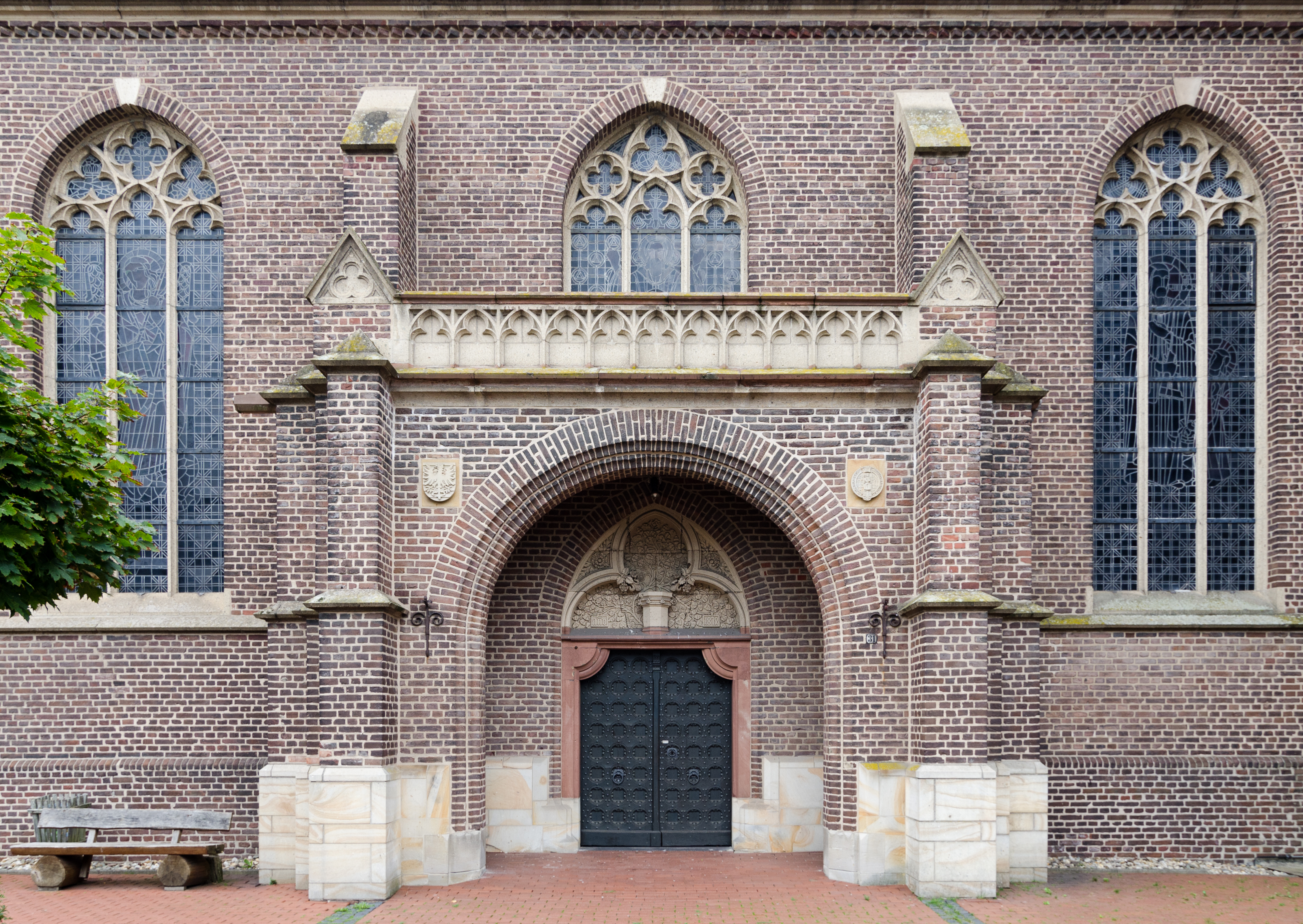 Alpen (North Rhine-Westphalia, Germany) – Catholic Saint Ulrich Church – main portal